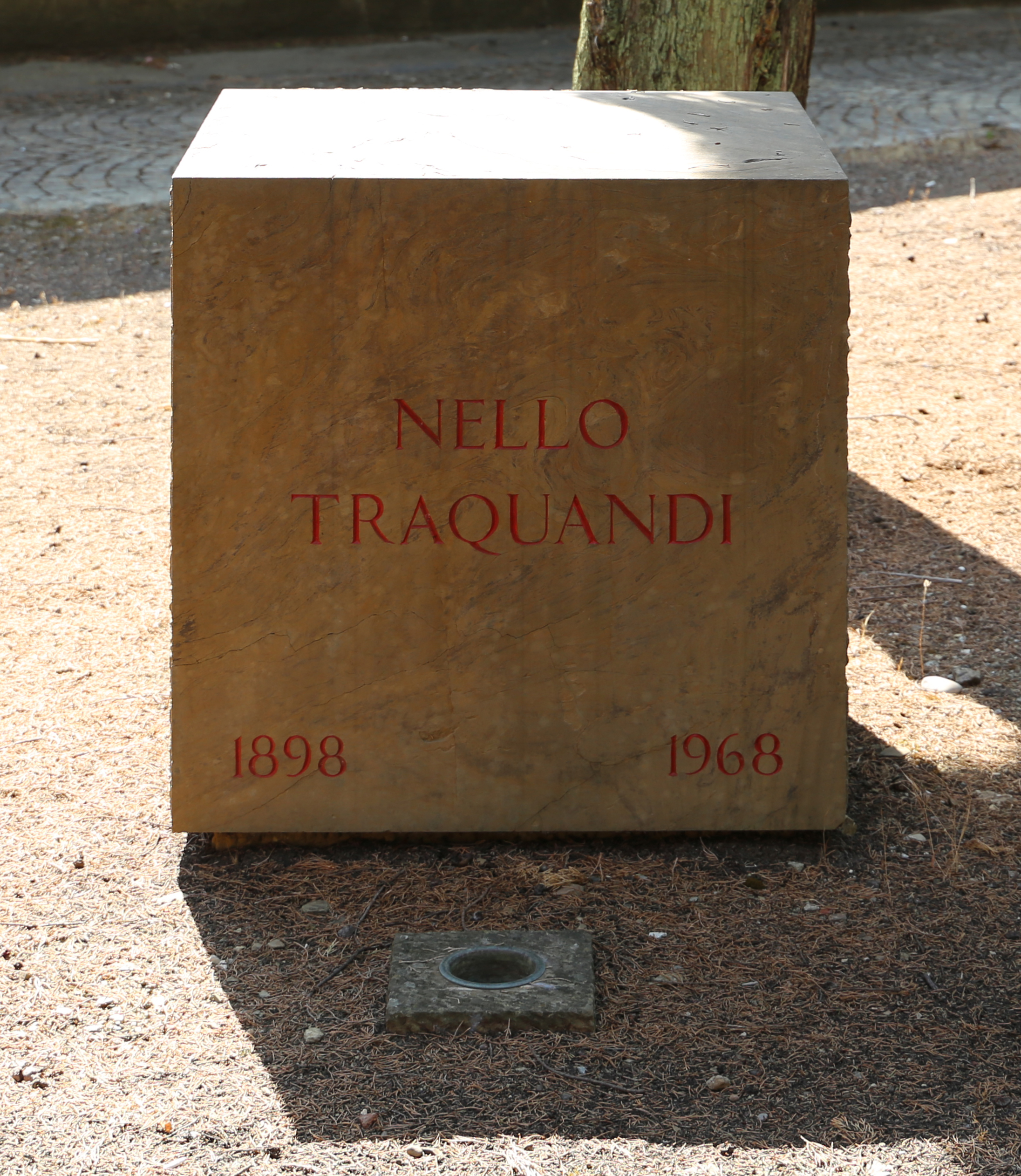 Trespiano cemetery